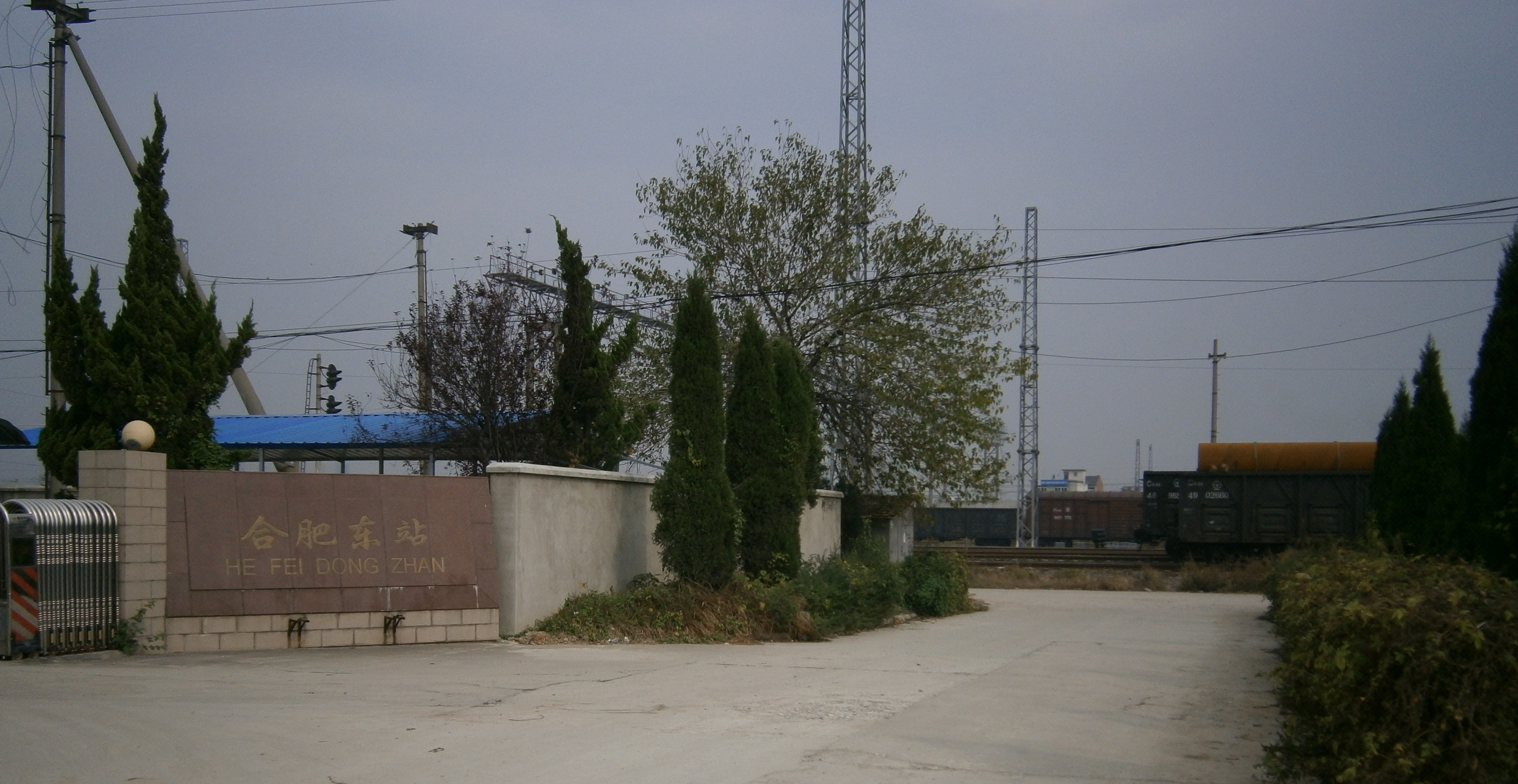 Hefei Dong Railway Station, China